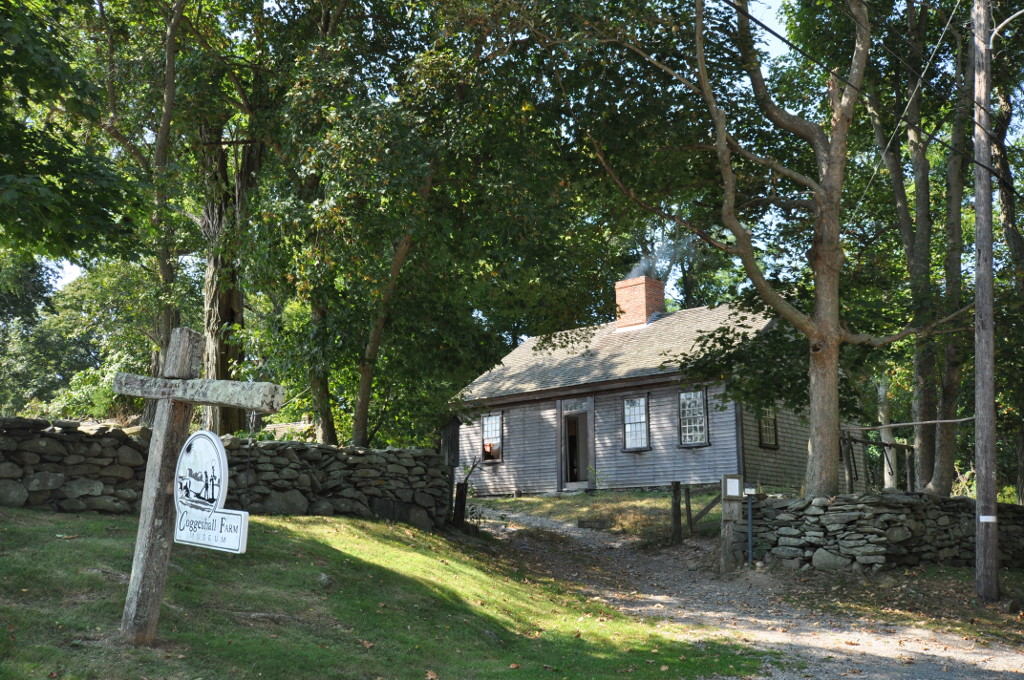 Farmhouse at Coggeshall Farm, in the Poppasquash Farms Historic District, Bristol, Rhode Island.